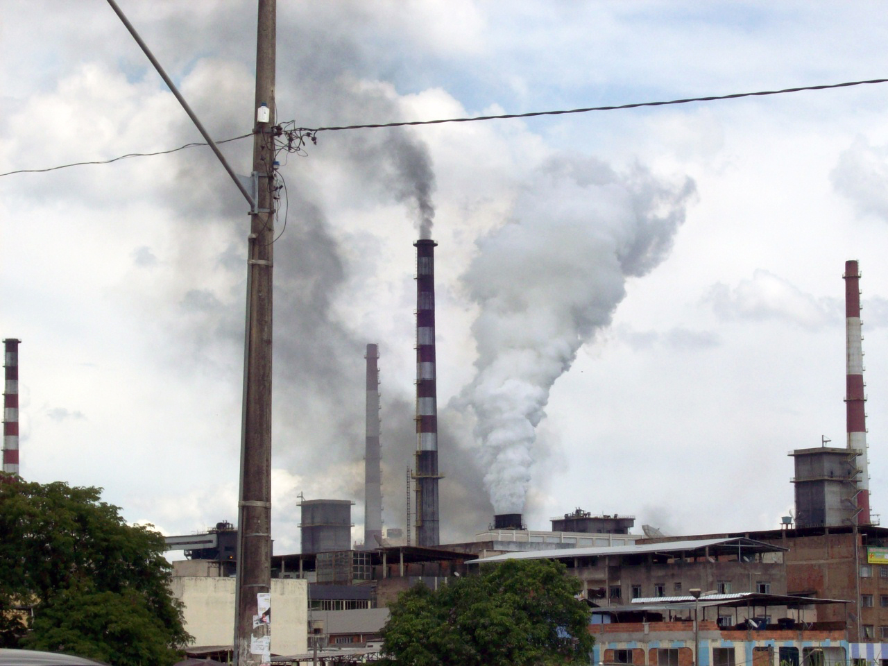 Gas emission of the Usiminas seen from of the Veneza neighborhood, em Ipatinga, Minas Gerais, Brazil.